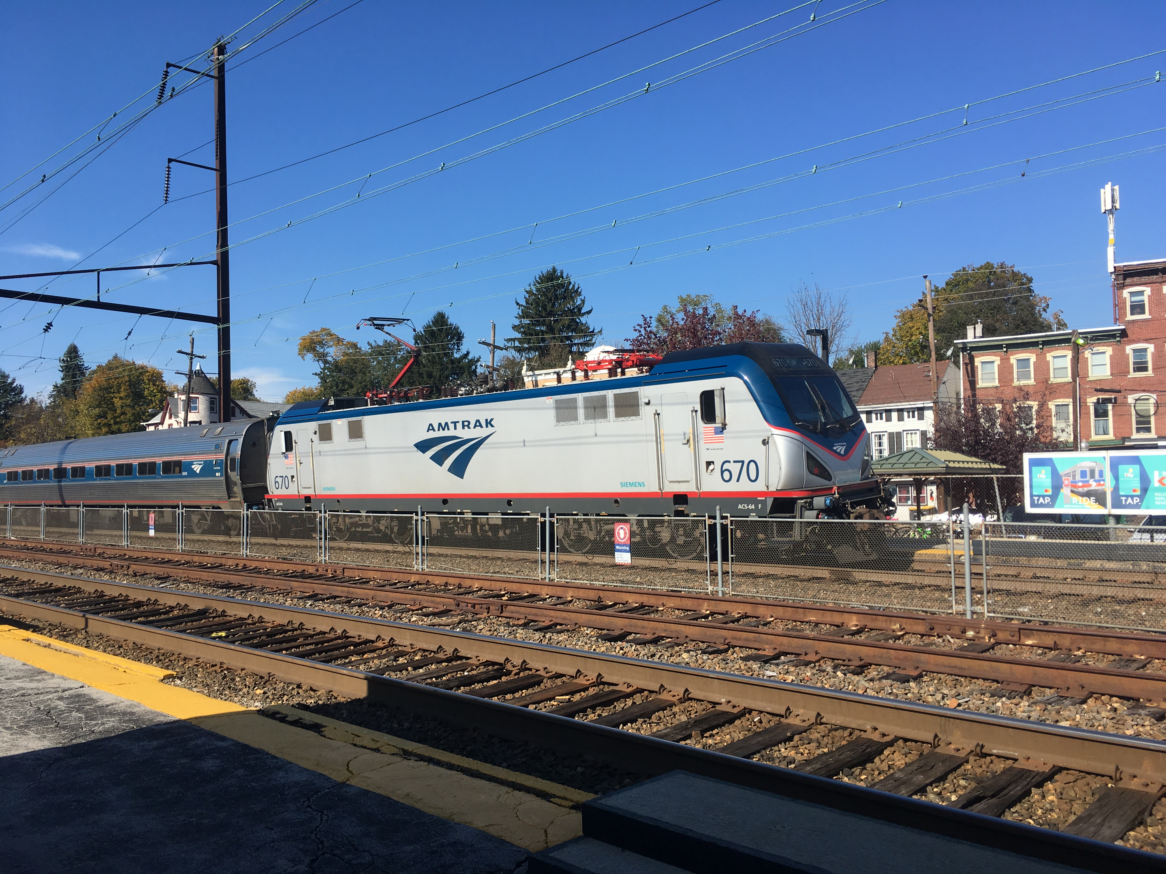 Amtrak Siemens ACS-64 670 trails on a westbound Keystone Service train bound for Harrisburg, Pennsylvania at Downingtown station in Downingtown, Pennsylvania